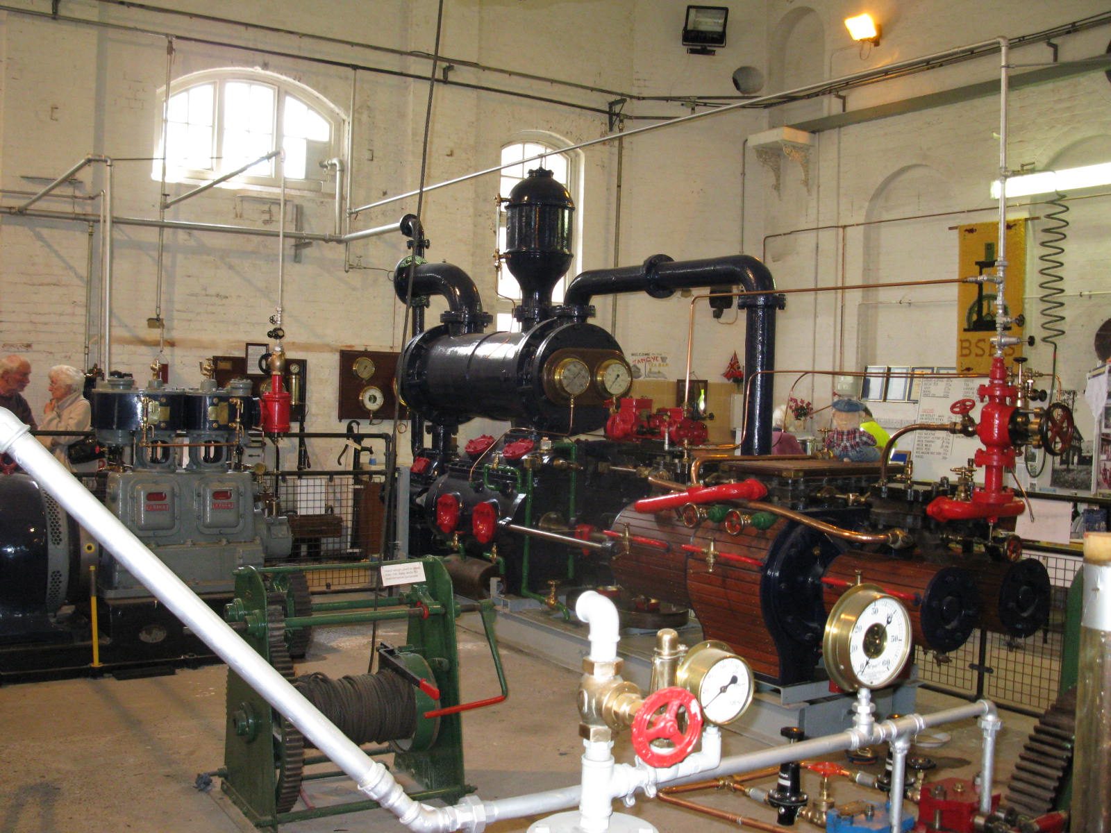 The interior of the boiler house at Brede Waterworks, East Sussex.